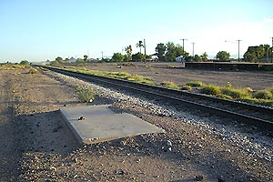 Probably the base of the former passenger shelter at the Coolidge station